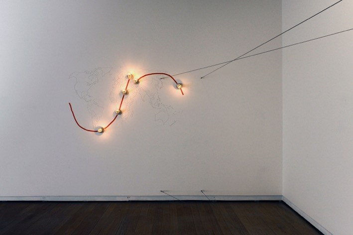 Artwork "Gagarin I (Impenetrable Corner-108 Minutes A Day) by Vittorio Santoro, 2012, Installation. Photo by Marco Blessano